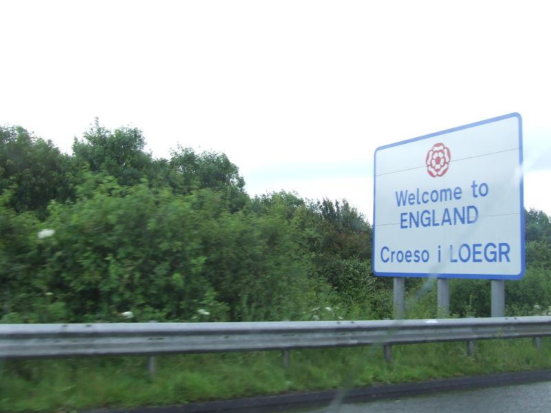 The route from Hereford to Bristol took us through Wales. This was when we re-entered England.